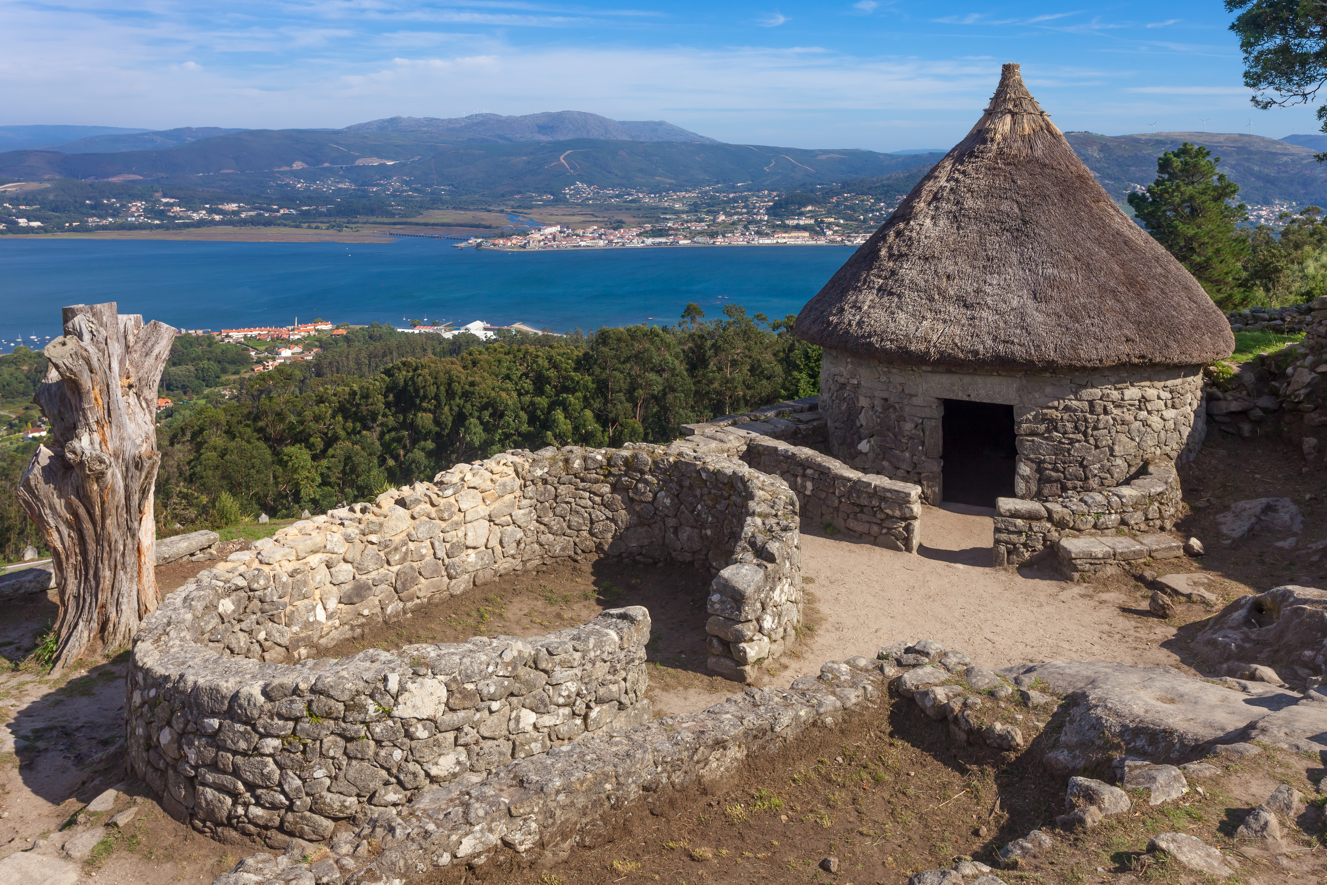 Hill fort of Santa Trega, A Guarda, Galicia (Spain). Mouth of Miño River at background.